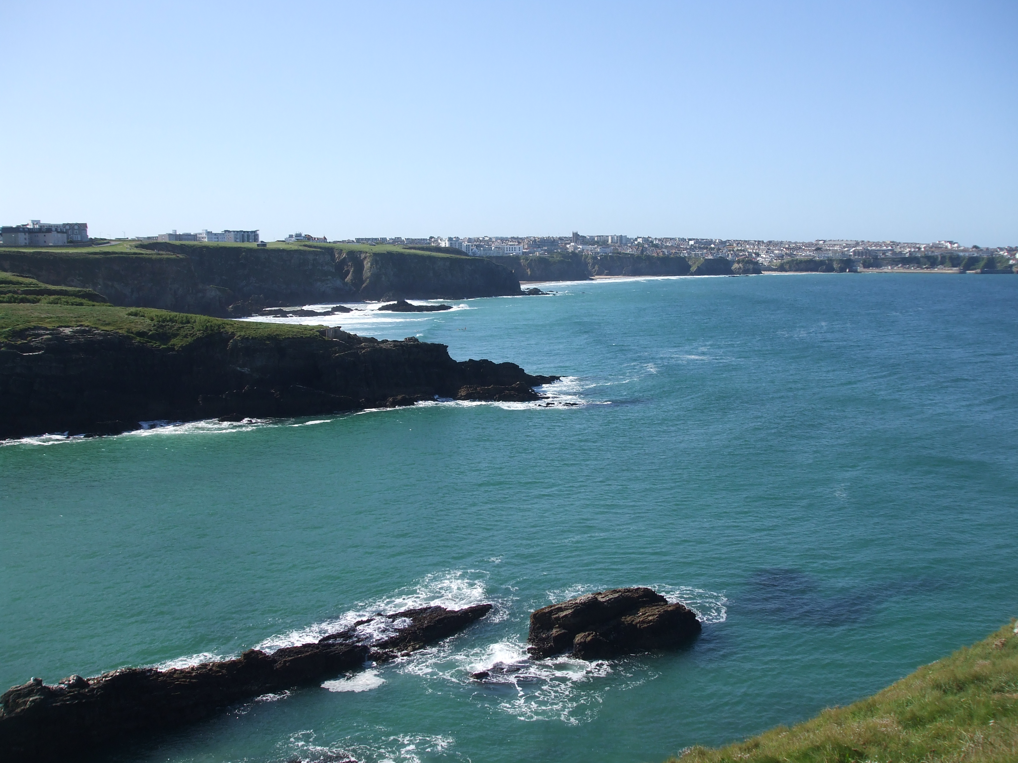 Panorama, beach, Newquay Cornwall